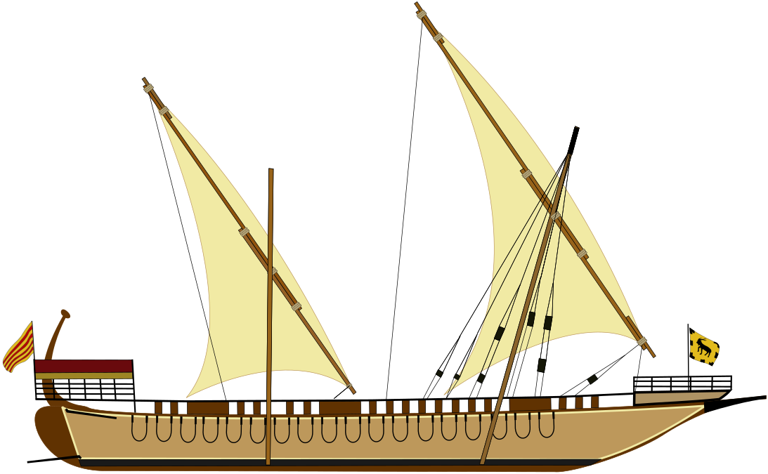 Ship used in the Mediterranean Sea during the Middle Ages